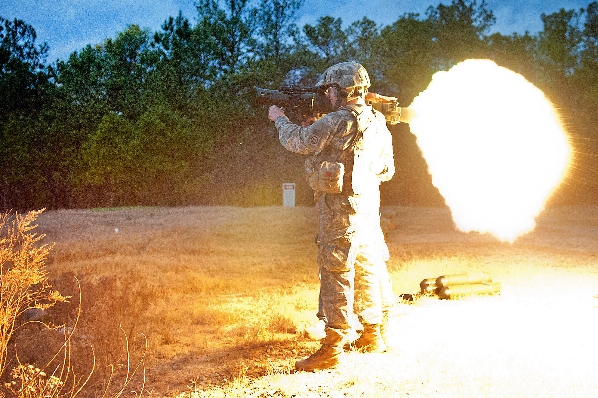 Two paratroopers fire a round from a Carl Gustav M3 84mm recoilless rifle during a certification course on Fort Bragg, N.C., Dec. 6, 2011. U.S. Army photo by Sgt. Michael J. MacLeod